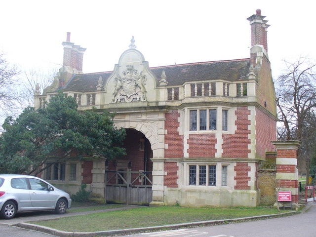 Petersham Road Lodge Impressive brick building with ashlar cornerstones on Petersham Road. It leads into Ham House grounds. The coat of arms in the façade is that of the Earls of Dysart, the original owners of Ham House.